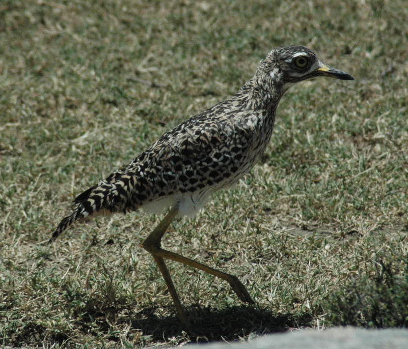 (David Erickson, self, )